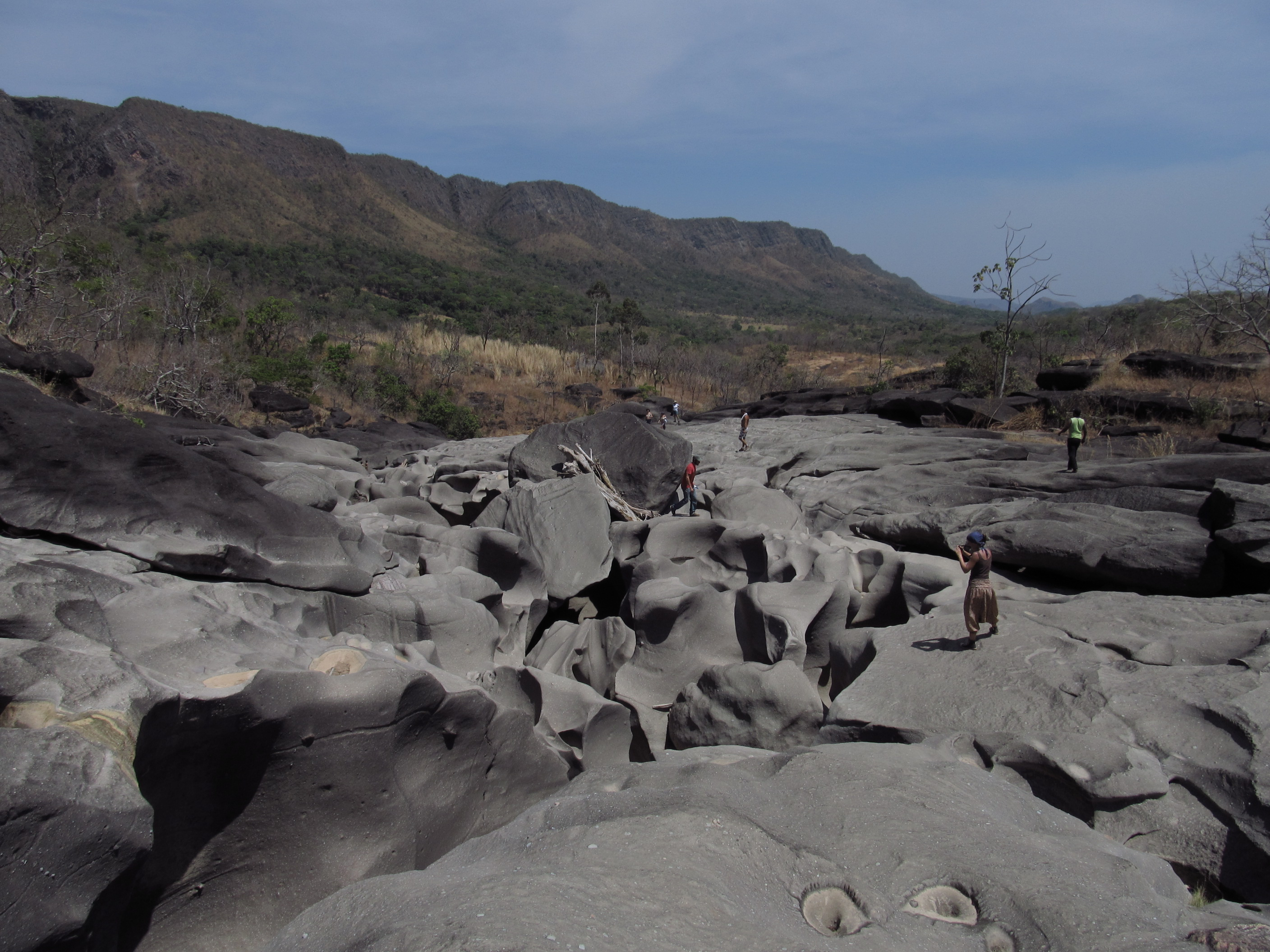 Moon Valley, next to Chapada dos Veadeiros National Park, Goiás, Brasil